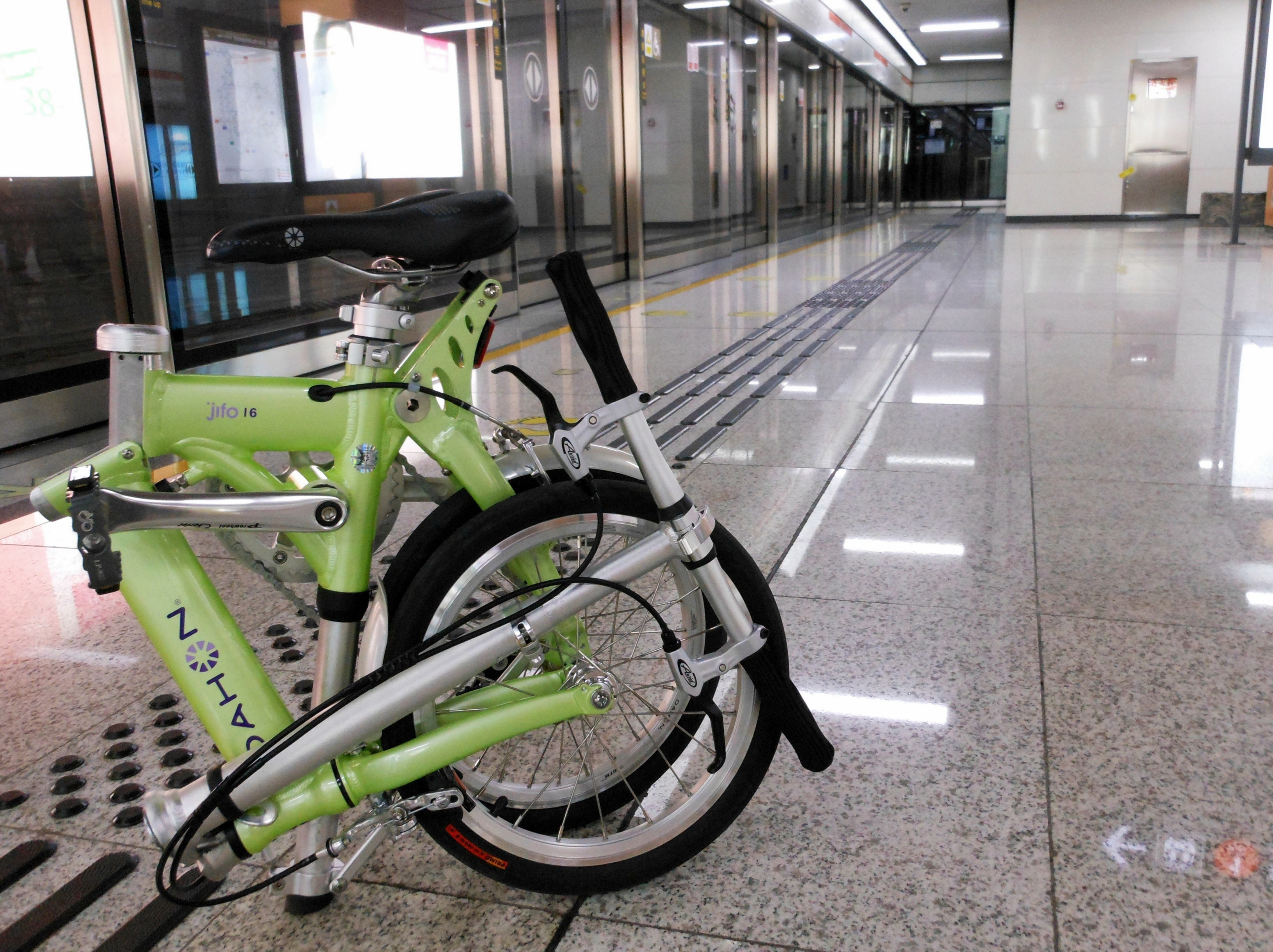 Green, Dahon Jifo 16 folding bicycle photographed in a metro station. Aluminum frame, 16" wheels, 8.95 kg weight and 7 second folding time.